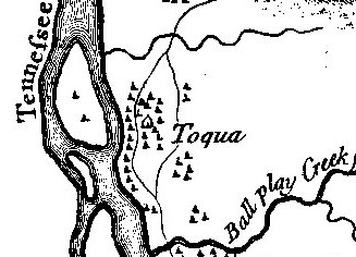 Detail of the Cherokee village Toqua, as shown on Henry Timberlake's "Draught of the Cherokee Country" in 1765. Toqua, located in what is now Monroe County, Tennessee in the southeastern United States, was submerged by the creation of Tellico Lake in 1979.